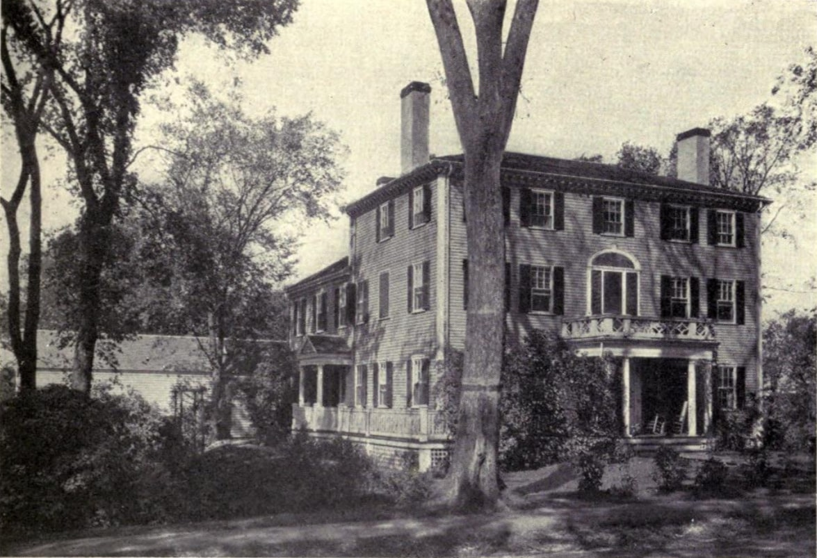 Samaritan House on the Phillips Academy house. It was the home of Osgood Johnson (4th Principal) and Alfred Stearns (9th Principal) but currently serves as a dormitory. Pictured in its original location on Chapel Ave, moved later to School Street.